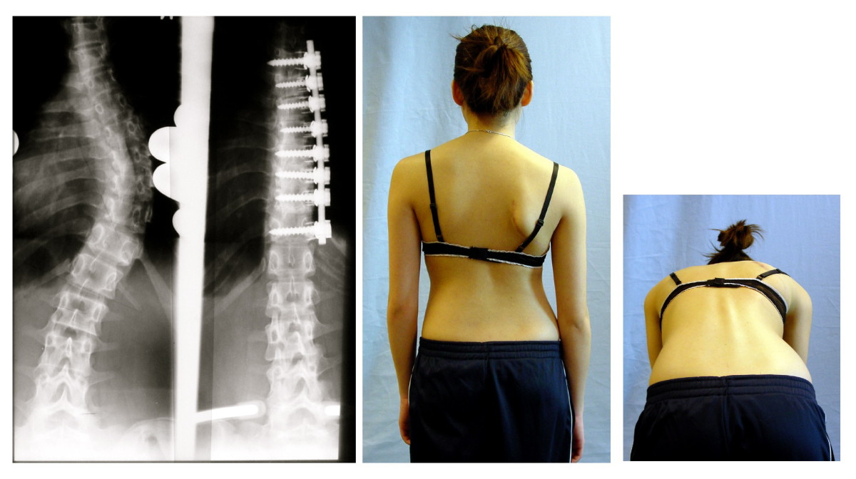 Excellent radiological result after scoliosis surgery (ventral fusion).